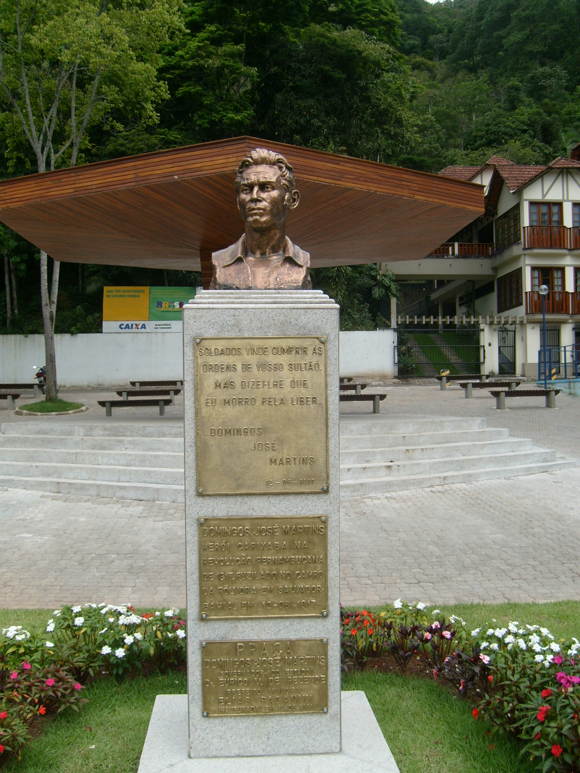 Domingos Martins's statue.